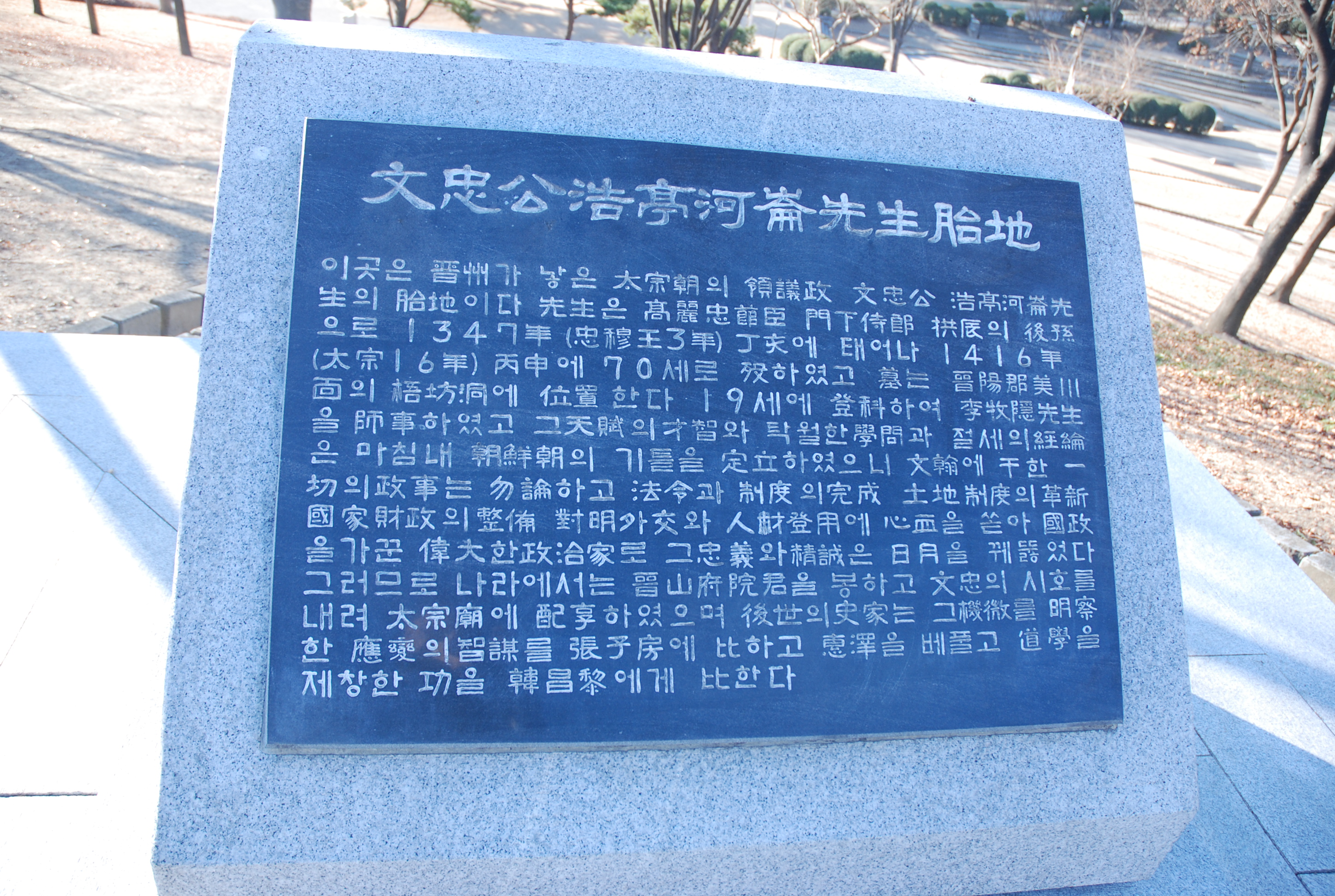 Ha Ryun, the Prime Minister of early Joseon Dynasty birth place